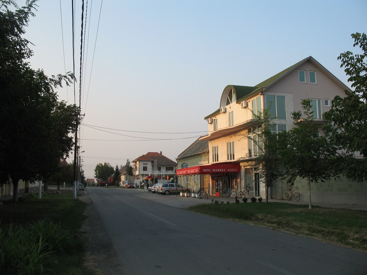 Ovča, near Belgrade, Serbia.